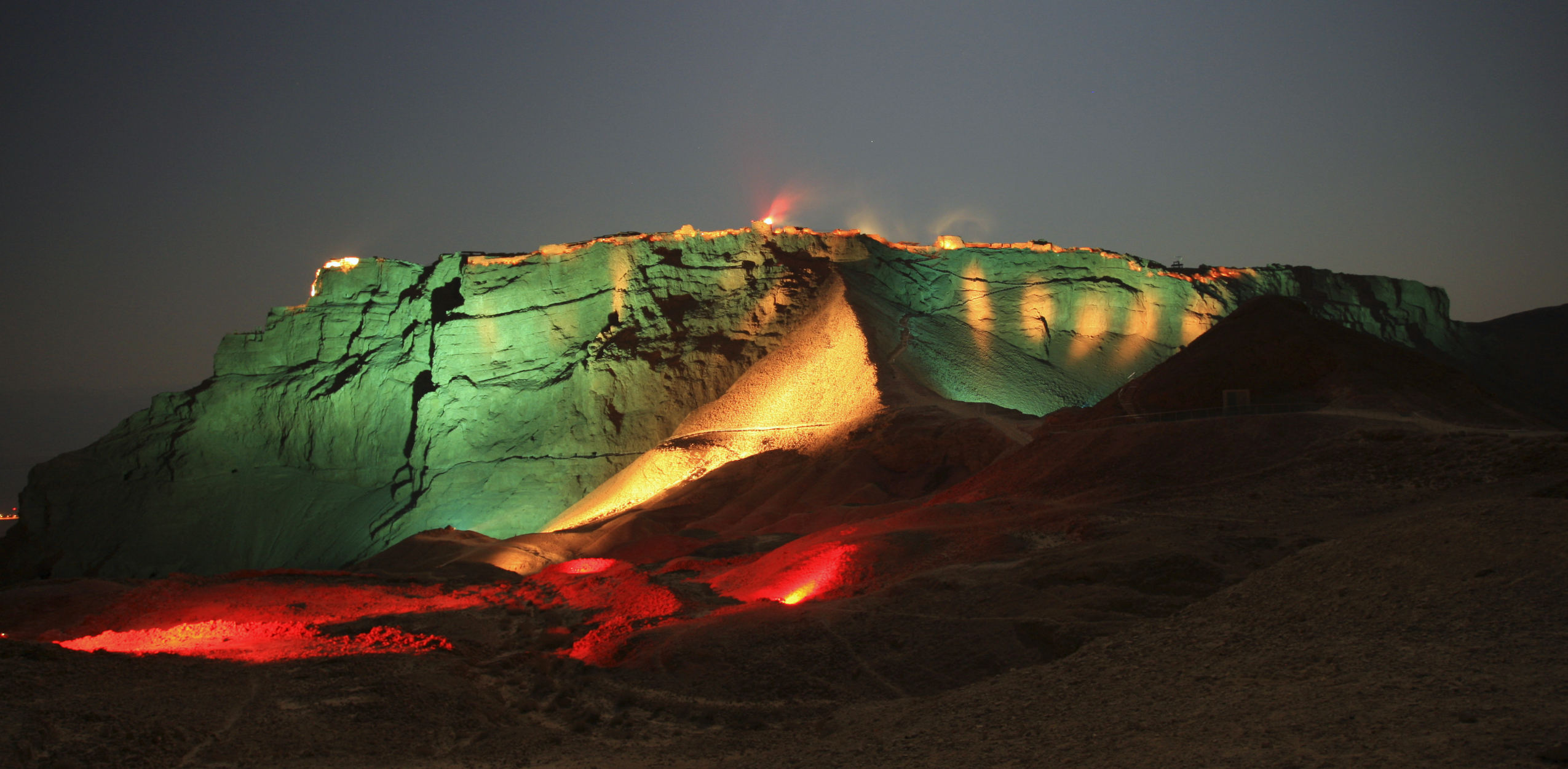 MASADA SOUND AND LIGHT SHOW The Masada Sound and light show is the only one of its kind that vividly depicts the life, the struggle and the heroism of the people of Masada some 1900 years ago. Using sound, light and pyrotechnic technologies